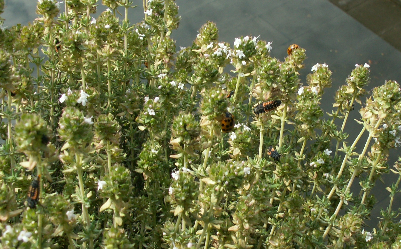 Transformation of ladybugs